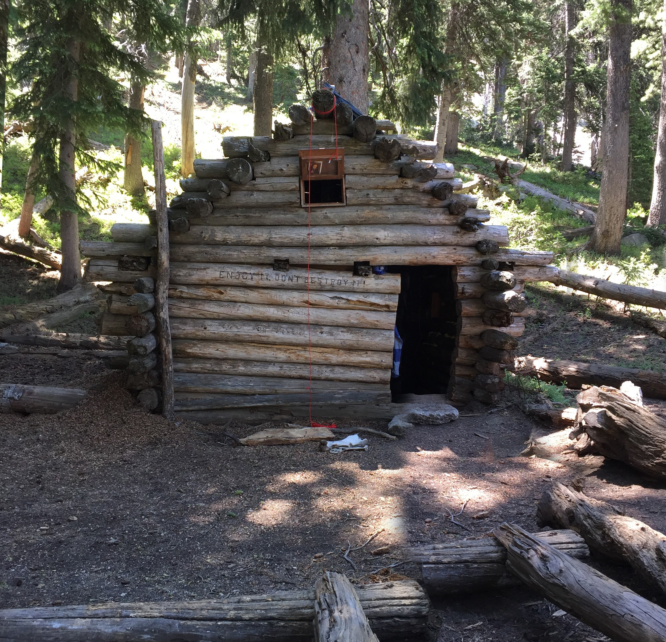 A cabin that you pass on the Cherry Canyon trail to Lone Peak